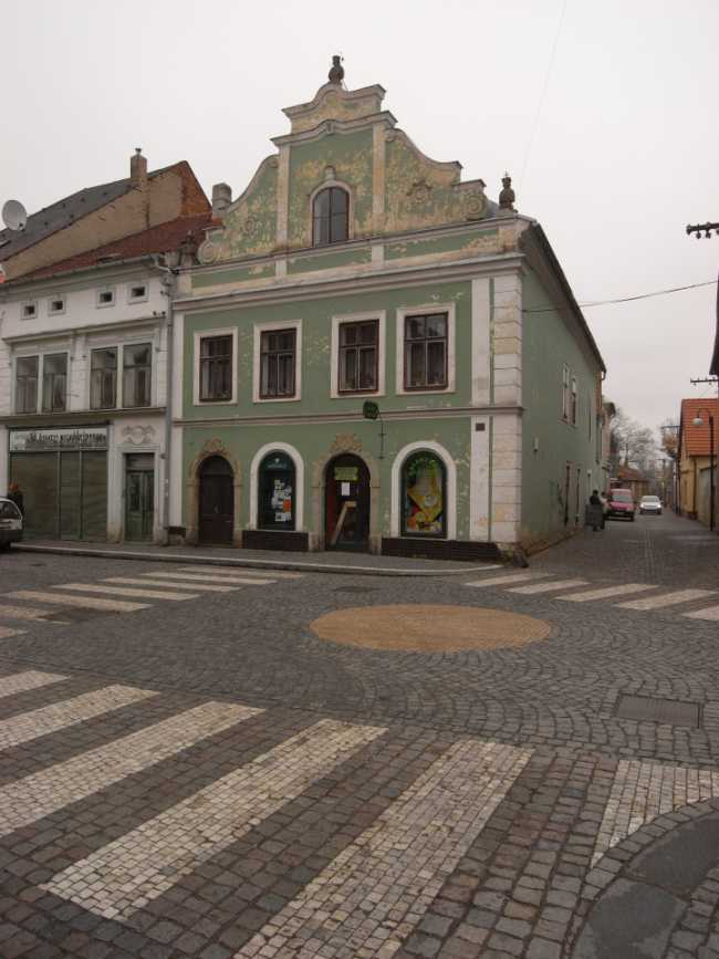 Vysoké Mýto, new pavement in the old city (granodiorite Hlinsko, granite Skuteč, marble Sněžníkov)